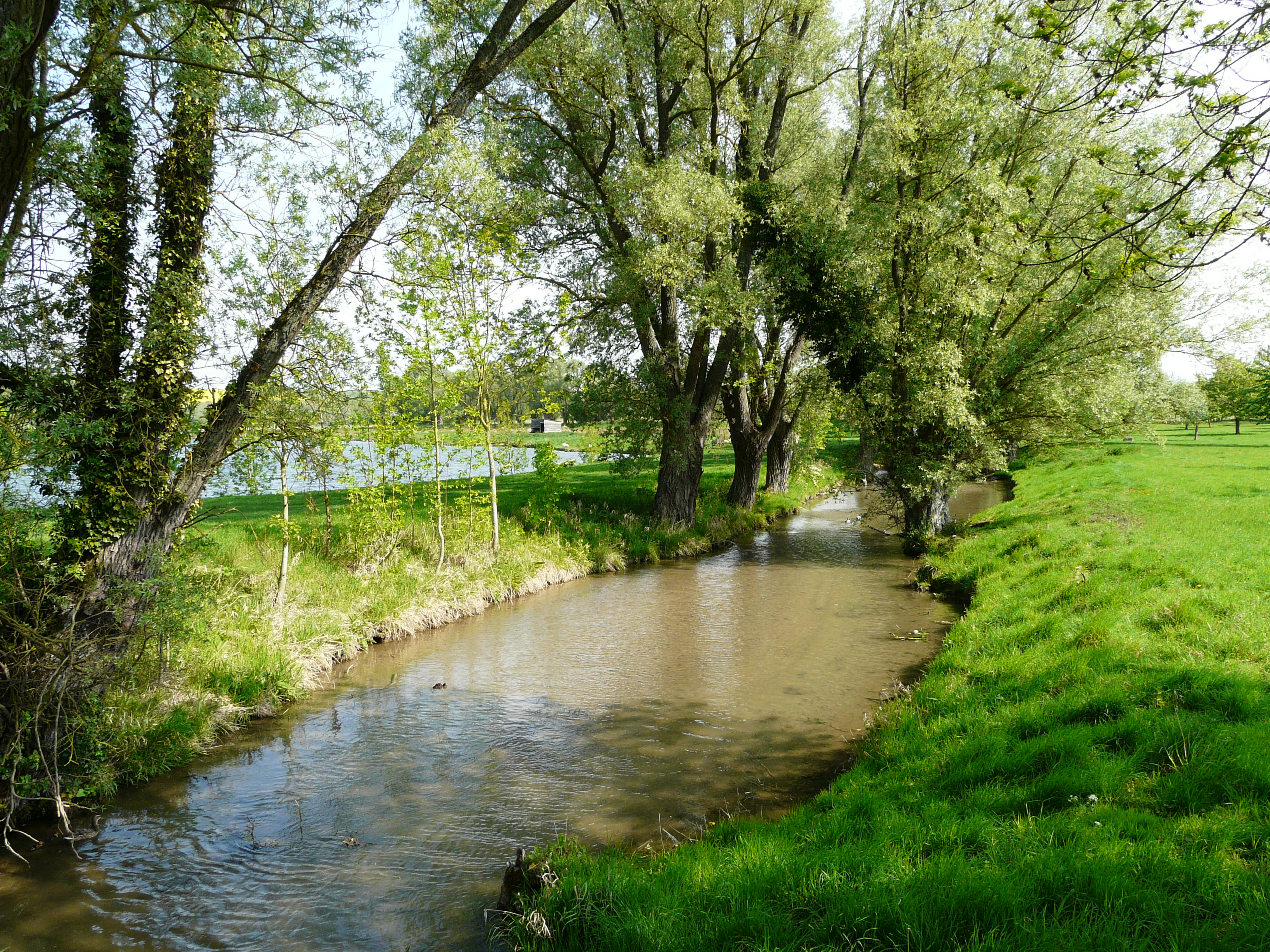 The Schelde river near Vaucelles abbey at Les-Rues-des-Vignes (Nord, France)